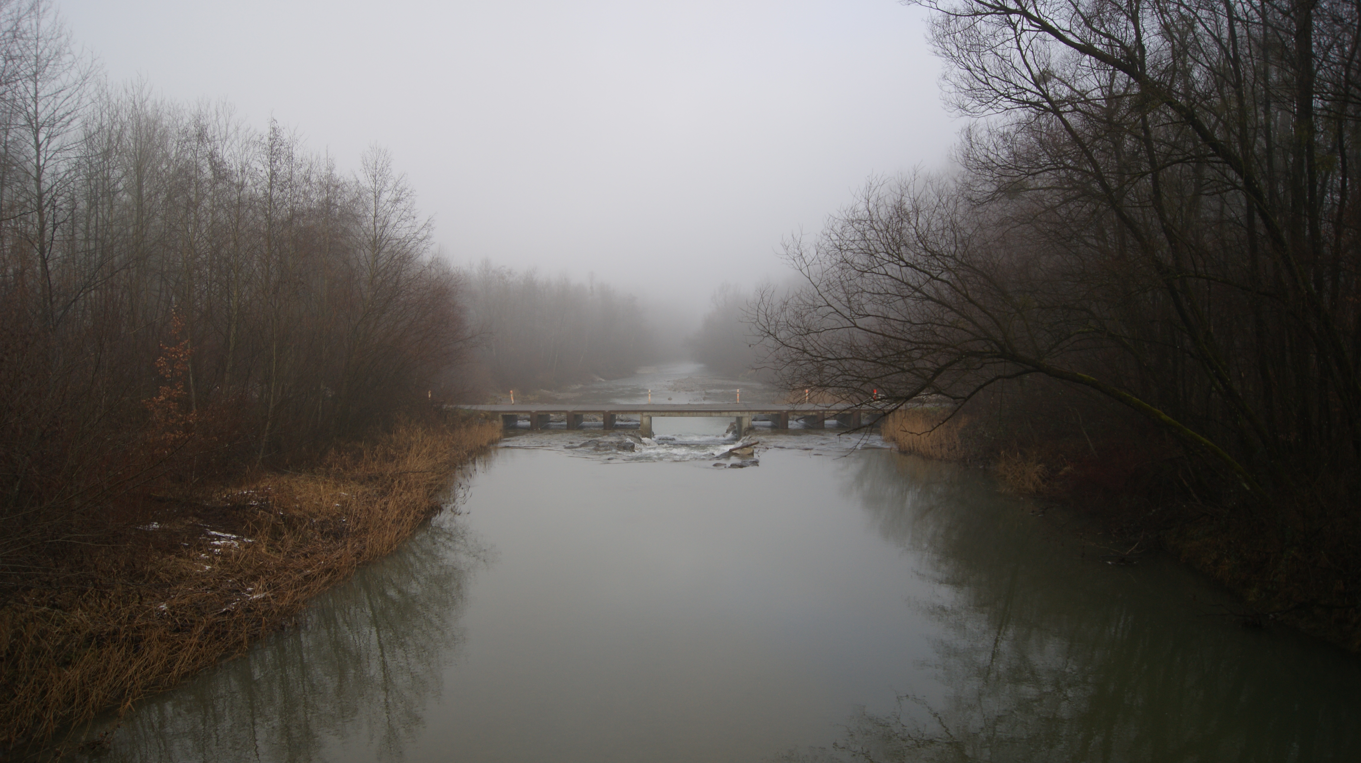 Footbridge near the Dornbirner Achfurt (ford in Vorarlberg, Austria) in winter fog at normal water level.